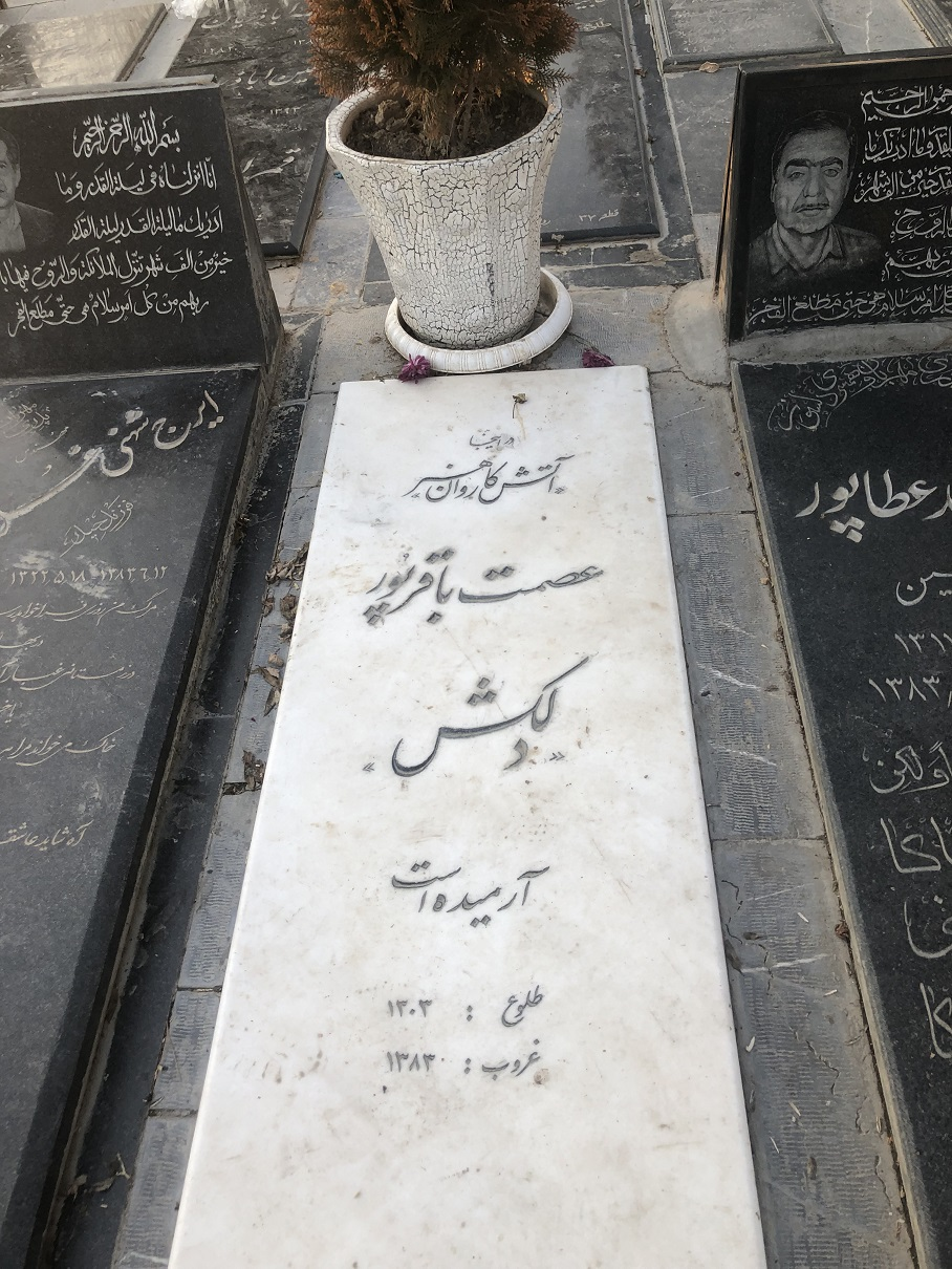 Emamzadeh Taher